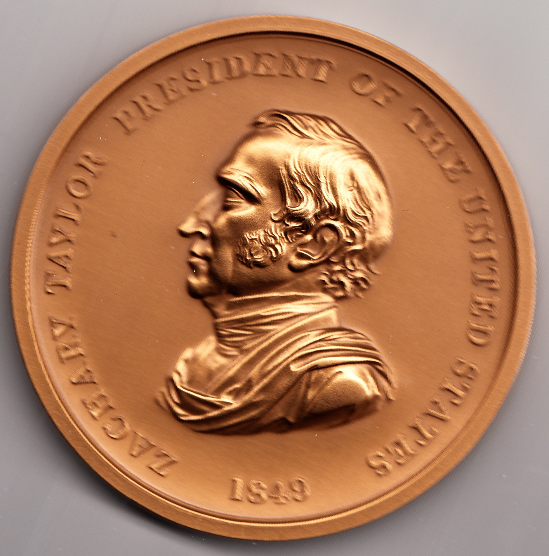 Restruck Indian Peace Medal (obverse) for Zachary Taylor. Used as part of the Mint's Presidential Medals series.